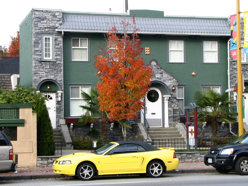 North Burnaby, British Columbia, Canada in October 2005.